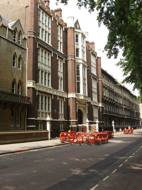 Dr Williams' Library, Gordon square Dr Williams's Library holds books and manuscripts relating to theology and English nonconformist history. It is an independent trust. For some information about the Centre for Dissenting Studies.